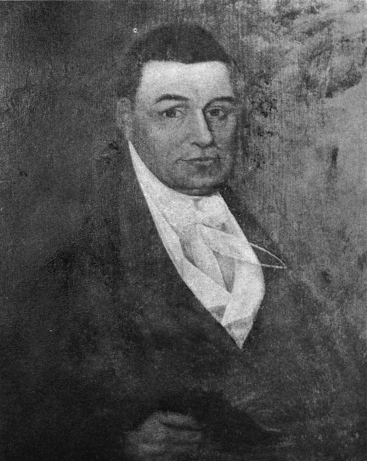 Samuel Woodson Venable, Nathaniel Venable’s son, attended Hampden–Sydney before moving on to Princeton where he graduated at the top of his class in 1780. Samuel Venable was lieutenant in the company of Hampden-Sydney College students that served for a brief period during the Revolutionary War.